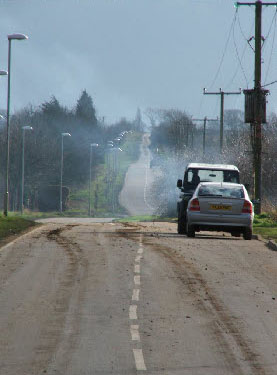 Ermine Street in Navenby in Lincolnshire, England.